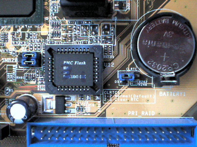 Flash-ROM (BIOS) and Batery / motherboard ASUS P4P800-E